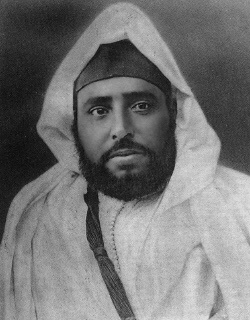 Sultan Abdelhafid of Morocco (1876-1937)